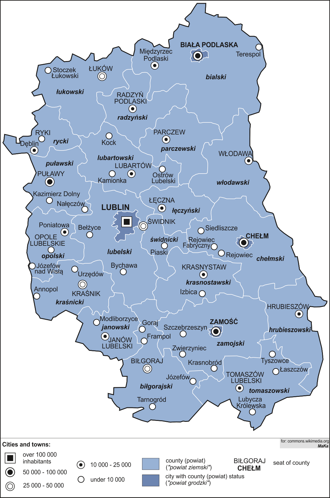 Administrative map of Lublin Voivodeship